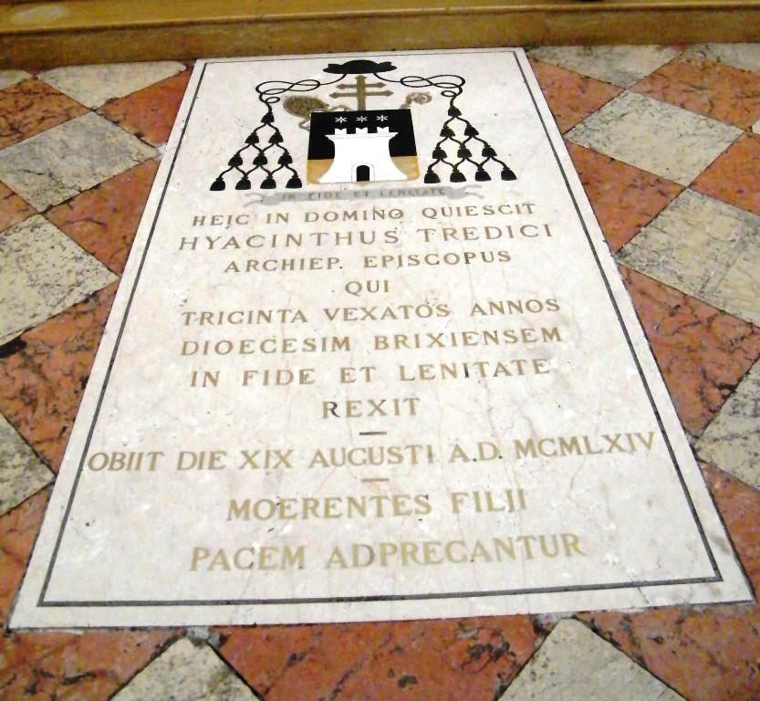 Giacinto Tredici. Grave in Duomo Nuovo, Brescia.